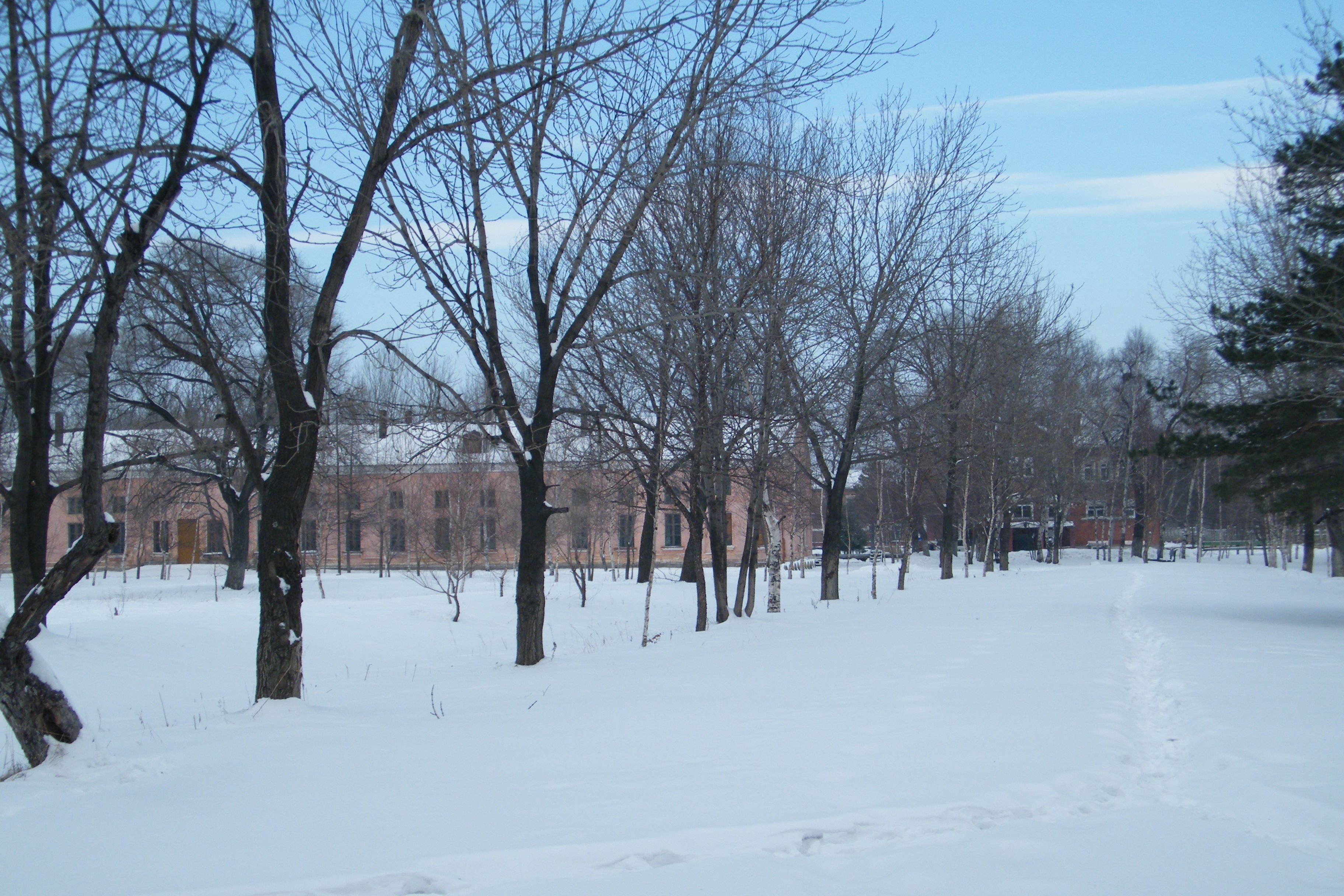 Suvorov Military School in Ussuriysk